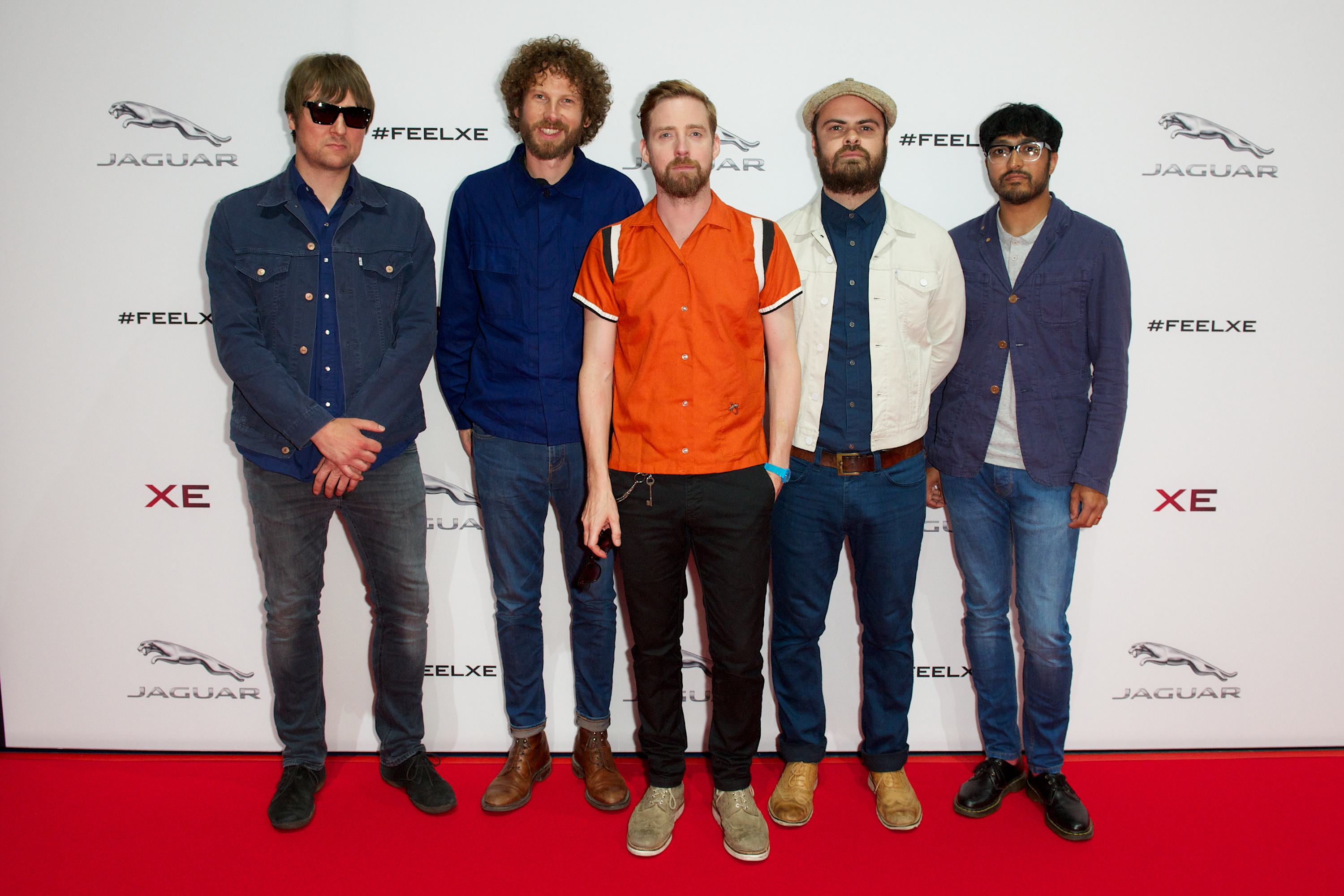 Kaiser Chiefs were guests of Jaguar at the reveal of the new XE in London, Monday 8th September 2014.